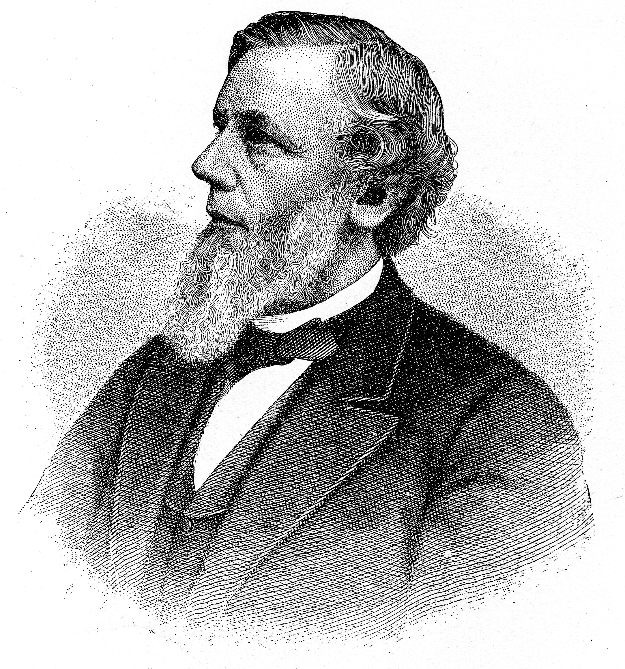 RI Governor Thomas Turner 1859-1860. Engraving from "The Providence Plantations for 250 Years" (1886), p. 367.